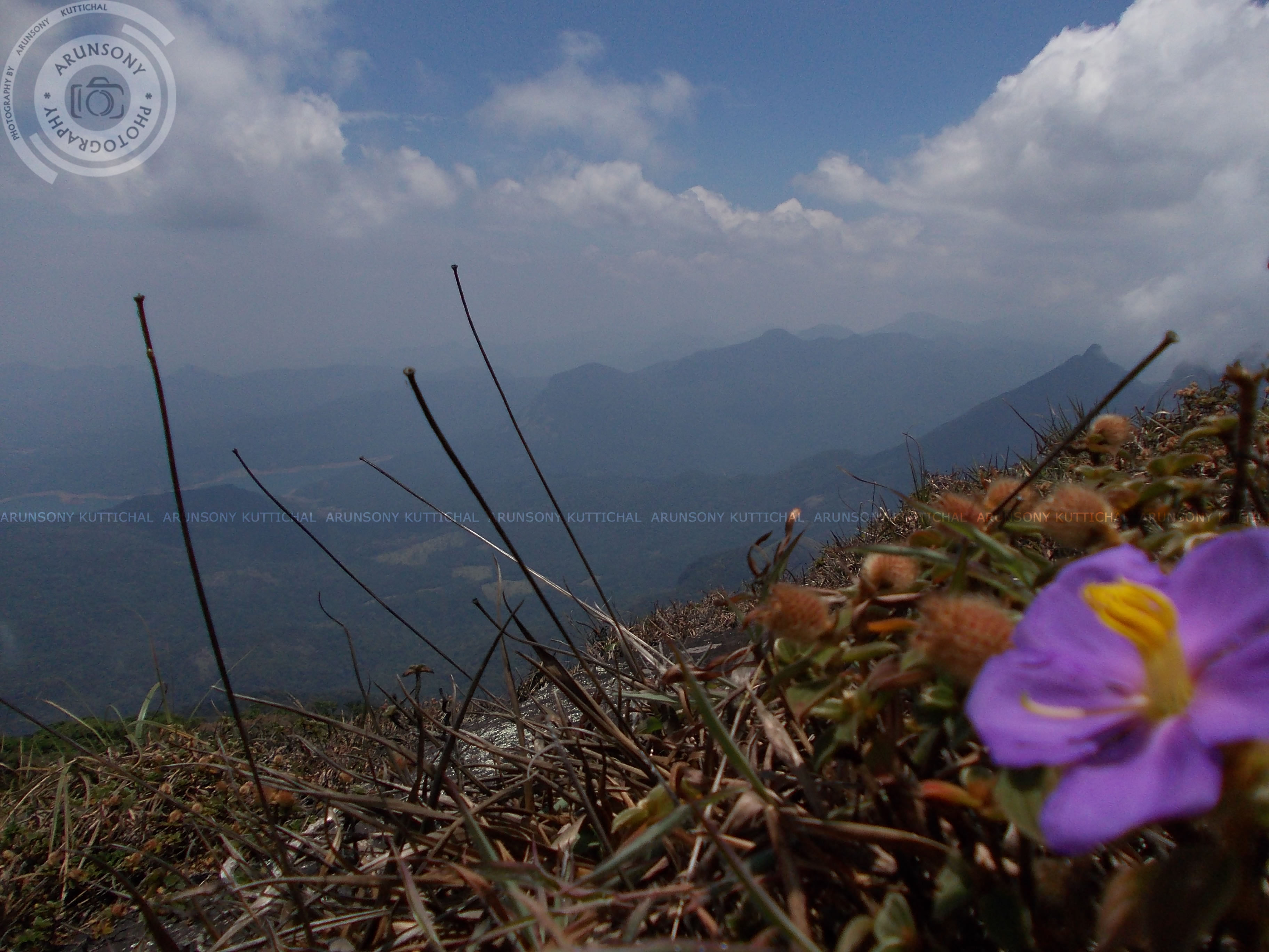 View of the valley of Agasthyakoodam